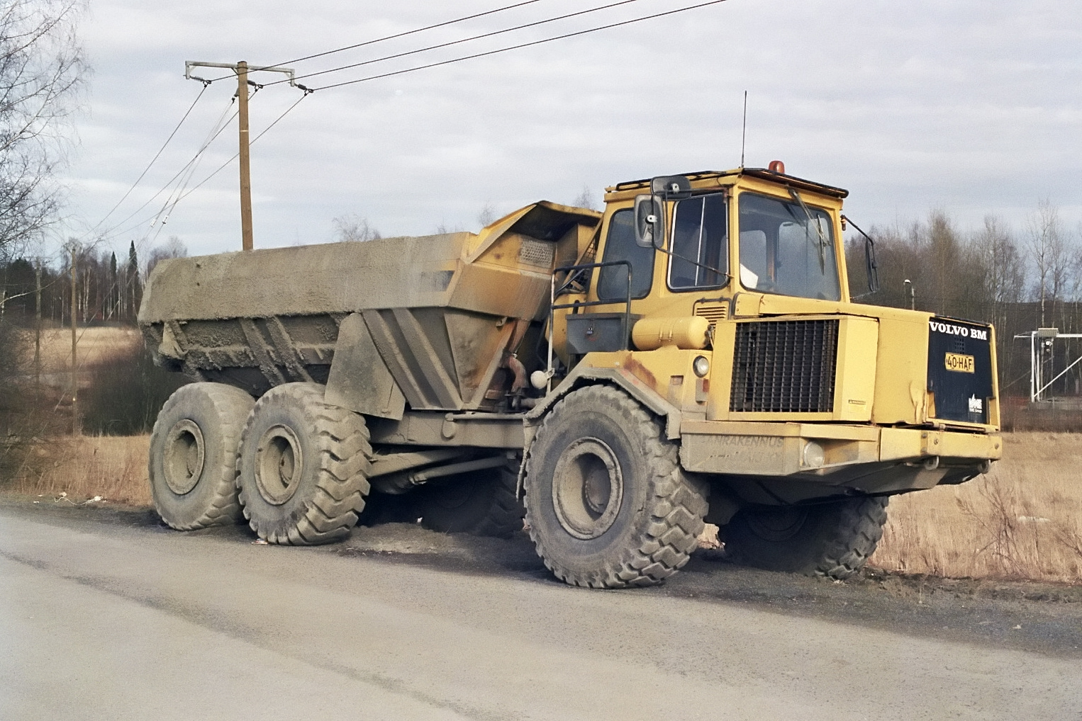 A dump truck by Volvo BM near the former M-real CTMP mill in the Lielahti district of the city of Tampere in Finland.